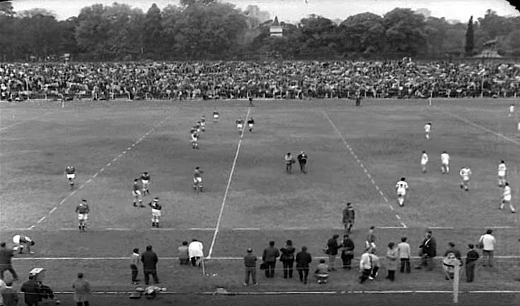 Argentina v. Wales national rugby union teams match played in GEBA stadium of Buenos Aires.